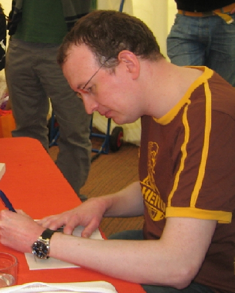 This is a picture of CHERUB Series author, Robert Muchamore signing books.